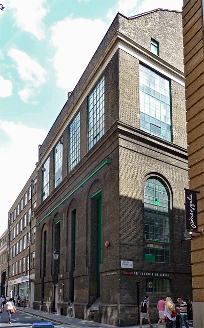 24-26 Shelton Street